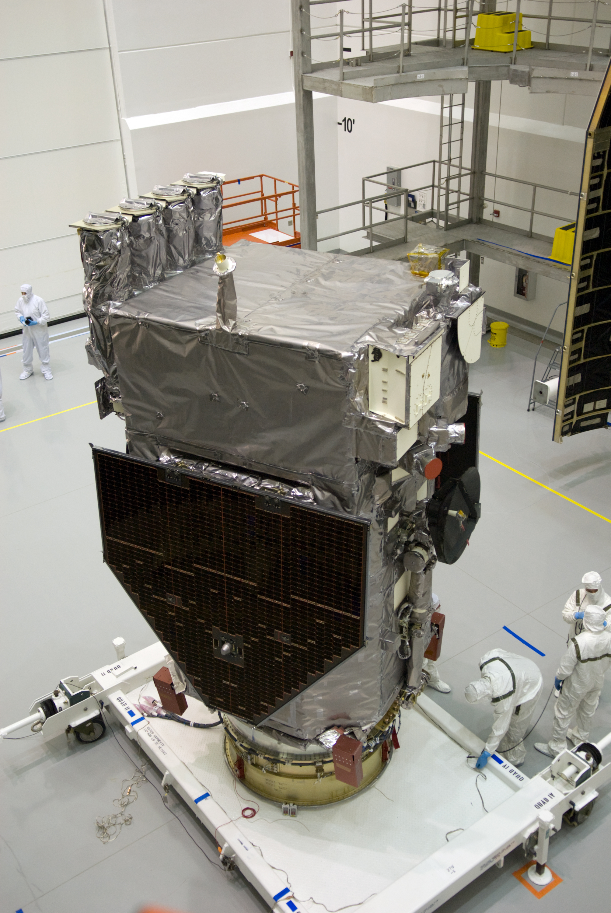 CAPE CANAVERAL, Fla. – At the Astrotech Space Operations facility in Titusville, Fla., processing of NASA's Solar Dynamics Observatory, or SDO, is complete, and it is ready to be installed into an Atlas V payload fairing. SDO is the first mission in NASA's Living With a Star Program and is designed to study the causes of solar variability and its impacts on Earth. The spacecraft's long-term measurements will give solar scientists in-depth information to help characterize the interior of the Sun, the Sun's magnetic field, the hot plasma of the solar corona, and the density of radiation that creates the ionosphere of the planets. The information will be used to create better forecasts of space weather needed to protect the aircraft, satellites and astronauts living and working in space. Liftoff aboard an Atlas V rocket is targeted for Feb. 9 from Launch Complex 41 on Cape Canaveral Air Force Station. For information on SDO, visit